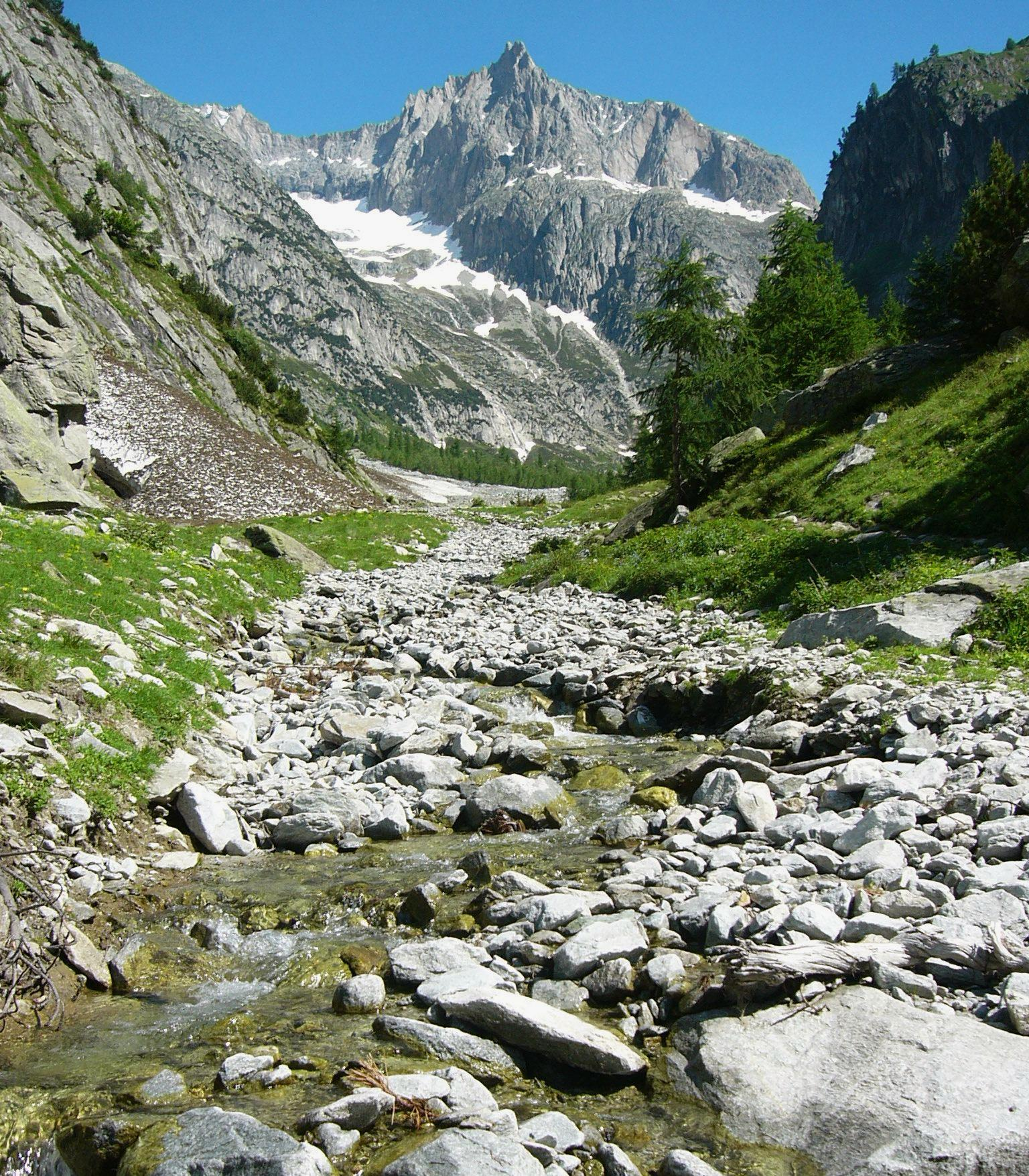 Baltschiedertal (north of Visp, Valais)